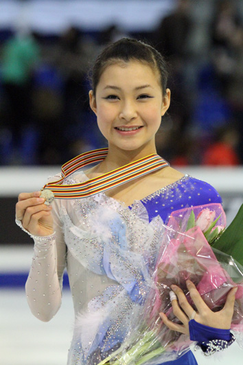 2010 World Junior Figure Skating Championships - Kanako Murakami